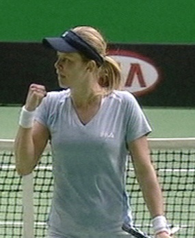 Belgian tennis player Kim Clijsters during her QF match against Martina Hingis at Australian Open 2006.